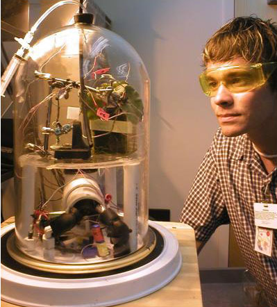 Bell-Jar Apparatus during low-pressure test. Radishes were subjected to tests of two hours at pressures of 10 kPa, 25 kPa, 50 kPa and 101 kPa. Infrared temperature sensors and thermocouples inserted into the leaf were used to measure changes in temperature as transpiration increased. Variables such as air temperature and humidity were controlled and recorded during the experiments.